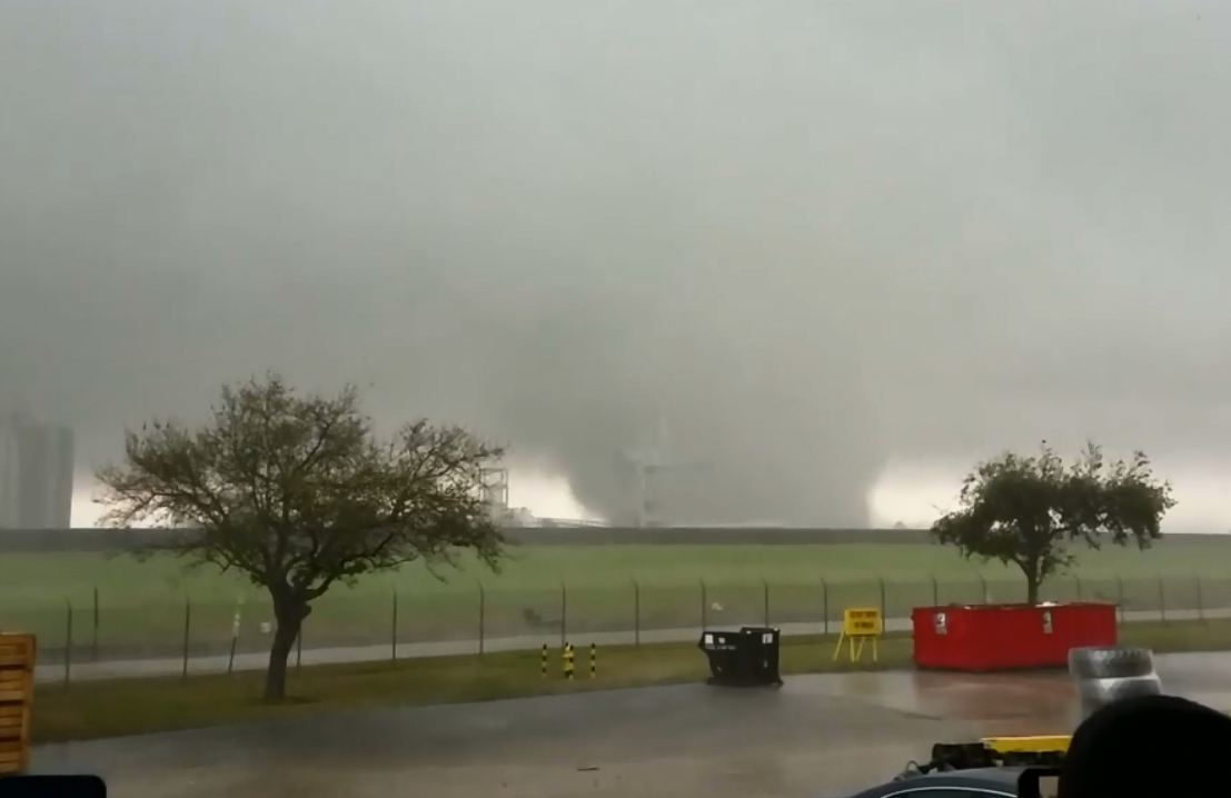 Image of Tornado Over Michoud Area of New Orleans East